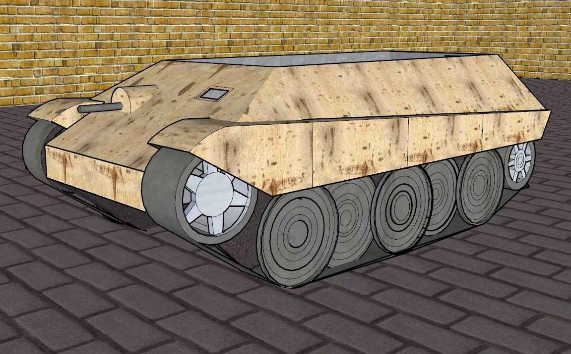 Vollkettenaufklarer "Katzchen" (Auto-Union)